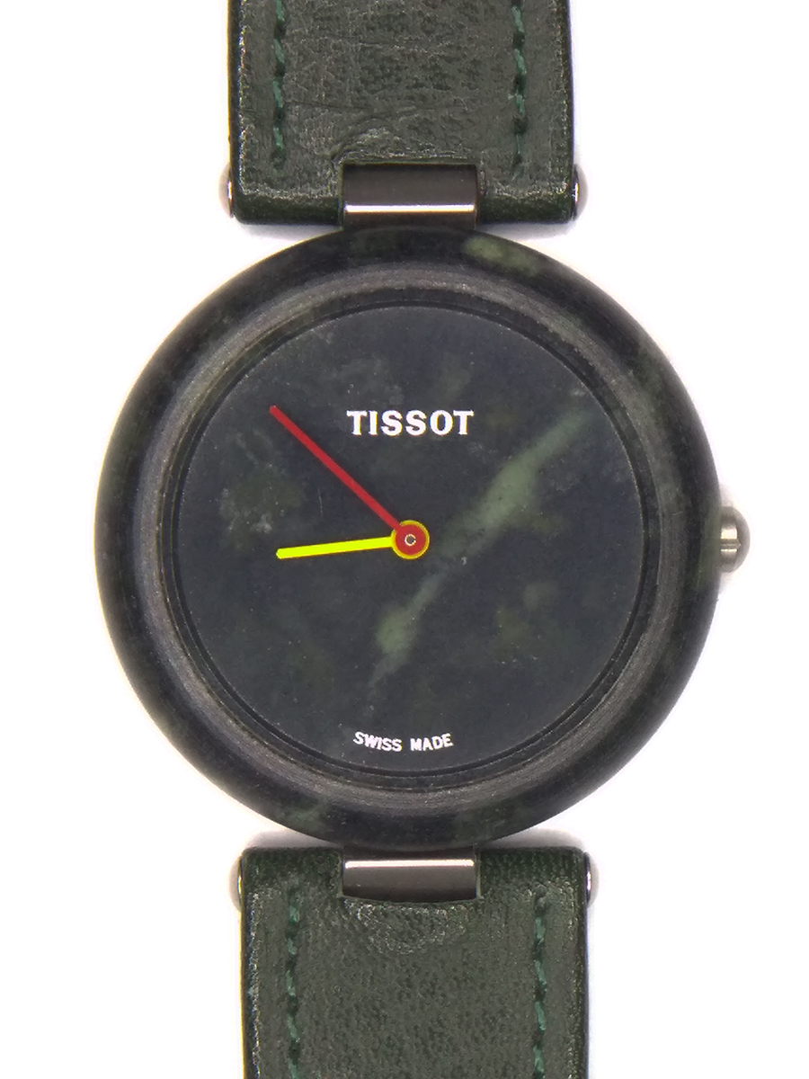 Tissot RockWatch R151 Men's size dark green front view